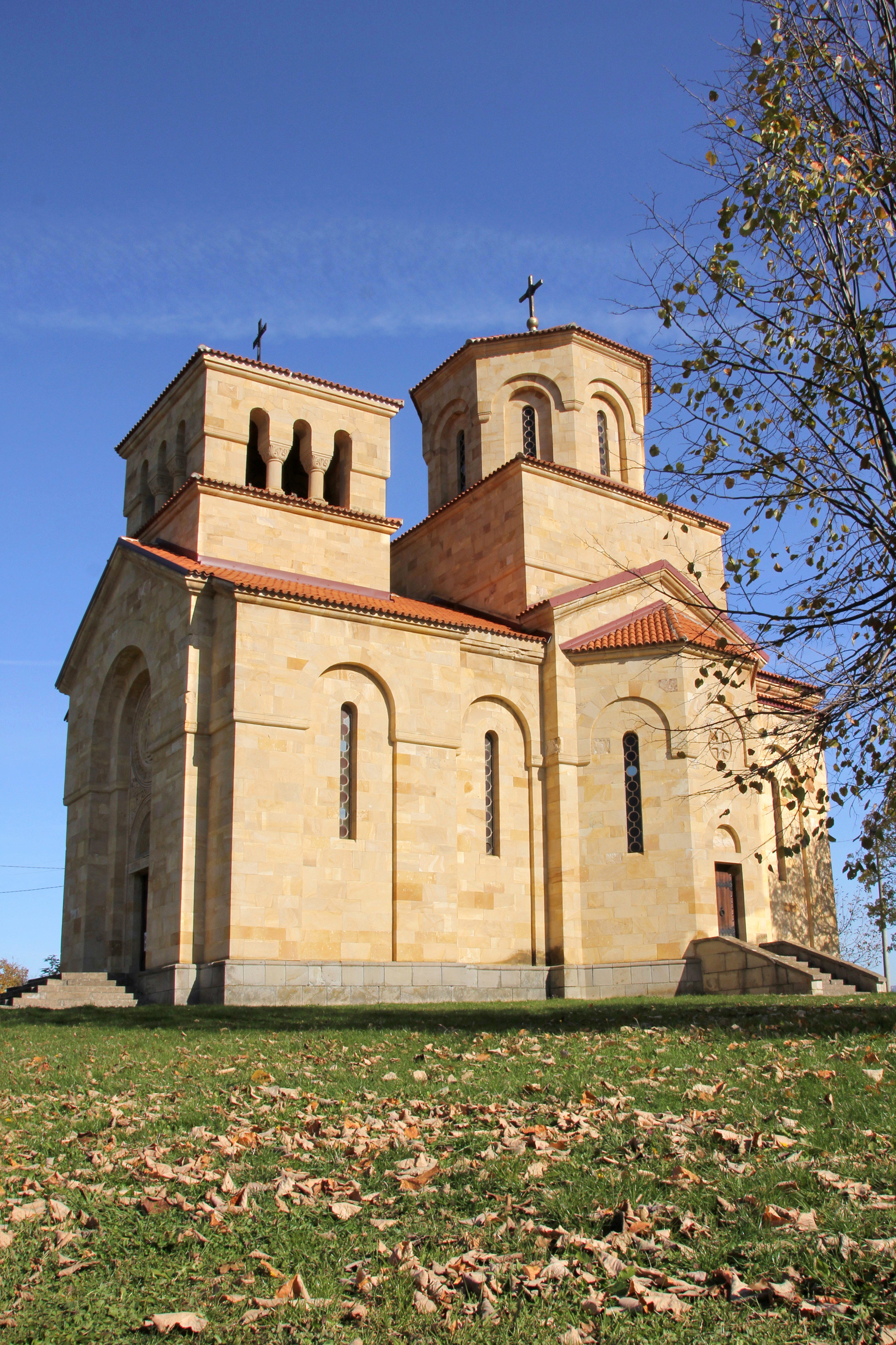 Crkva Svetog Nikole uŠilopaju (opština Gornji Milanovac).